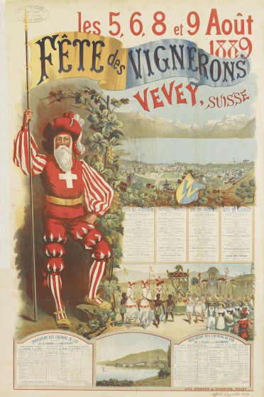 Feast of vinegrowers of Vevey 1889